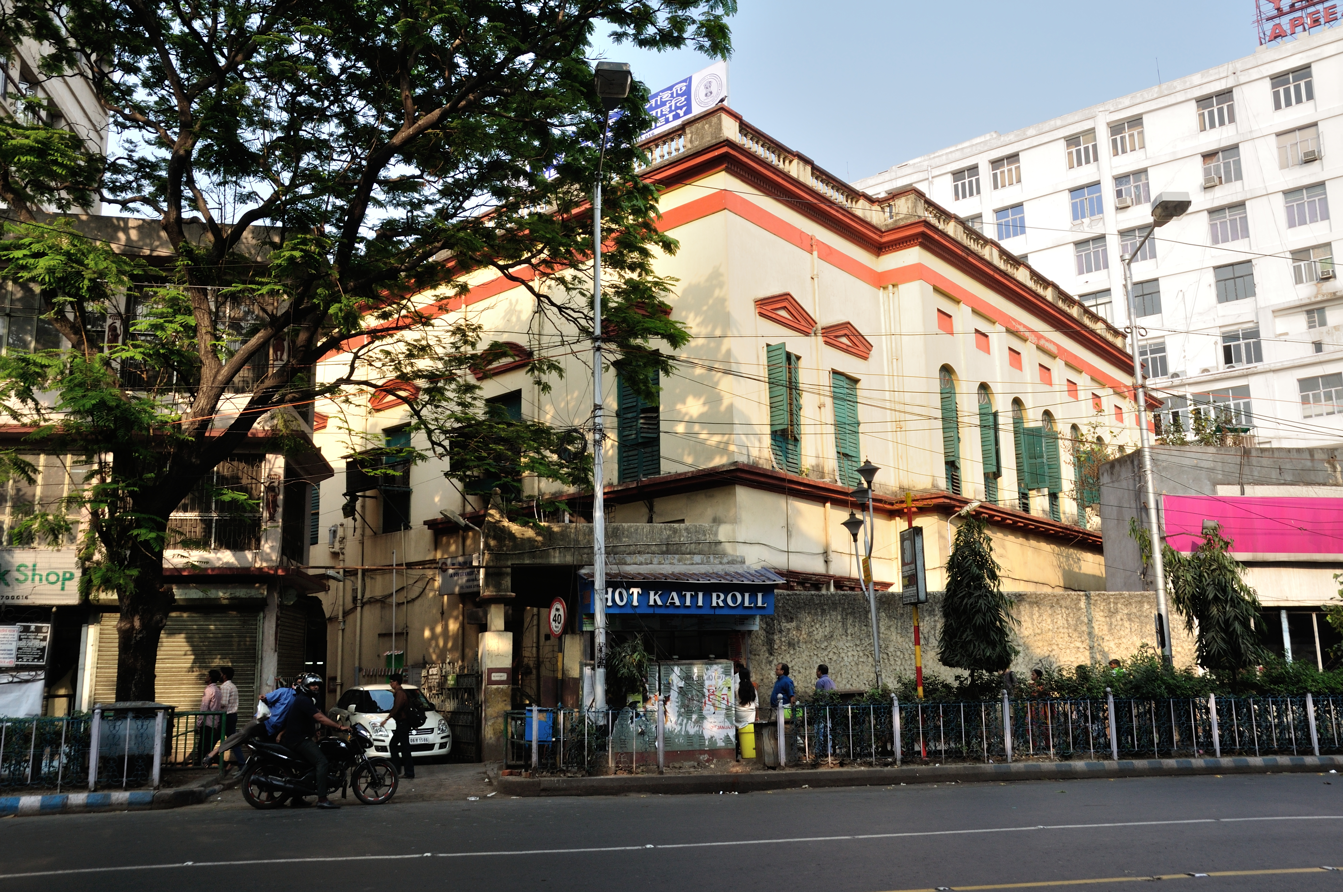 Photographed in Kolkata.